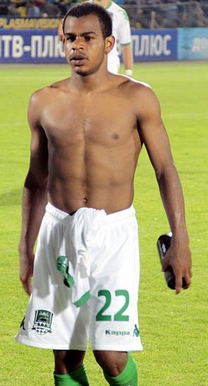 Joãozinho (João Natailton Ramos dos Santos) with FC Krasnodar.